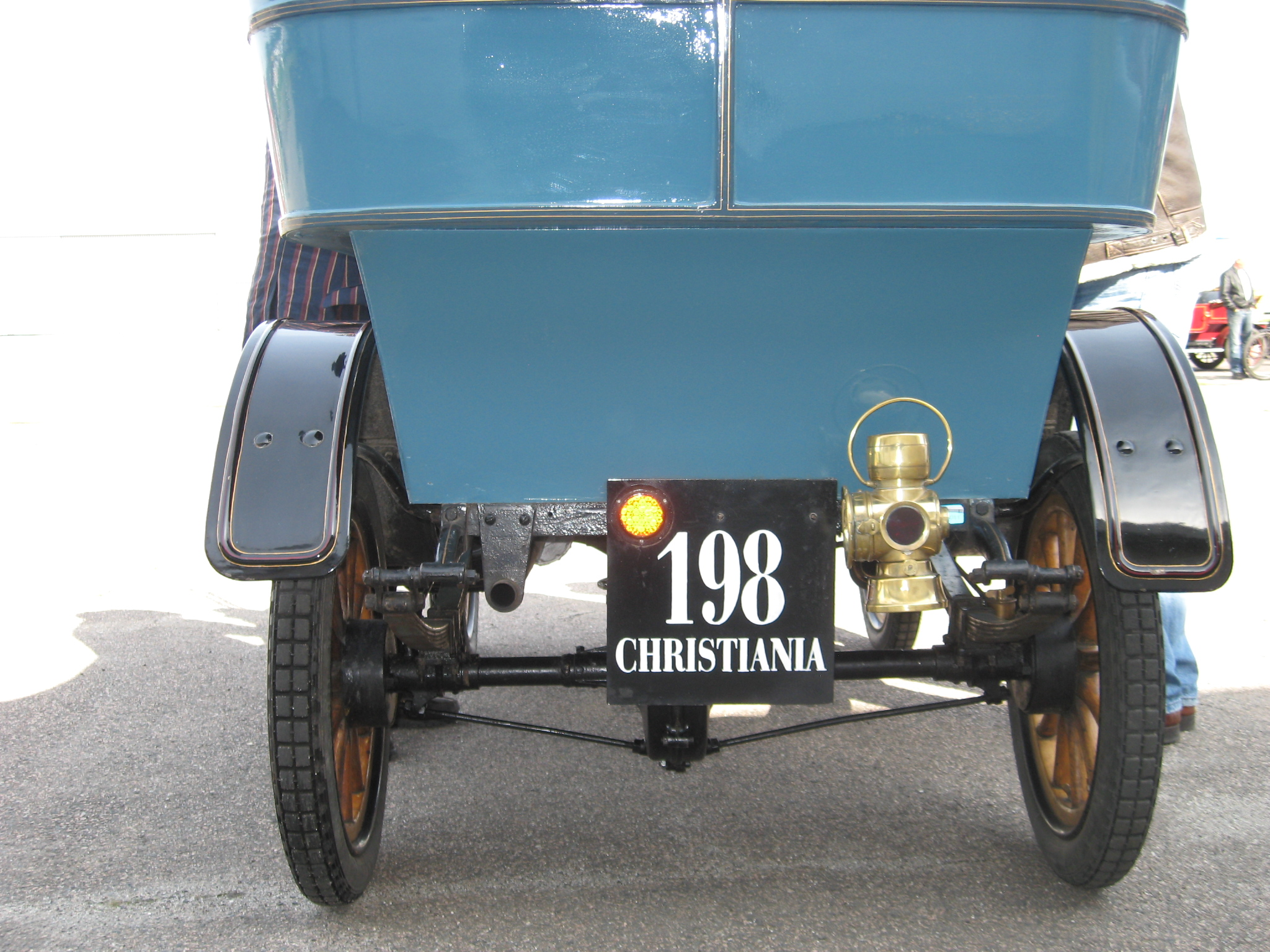 Automobile license plate form Norway as used 1899-1913. Christiania is the older name for Oslo